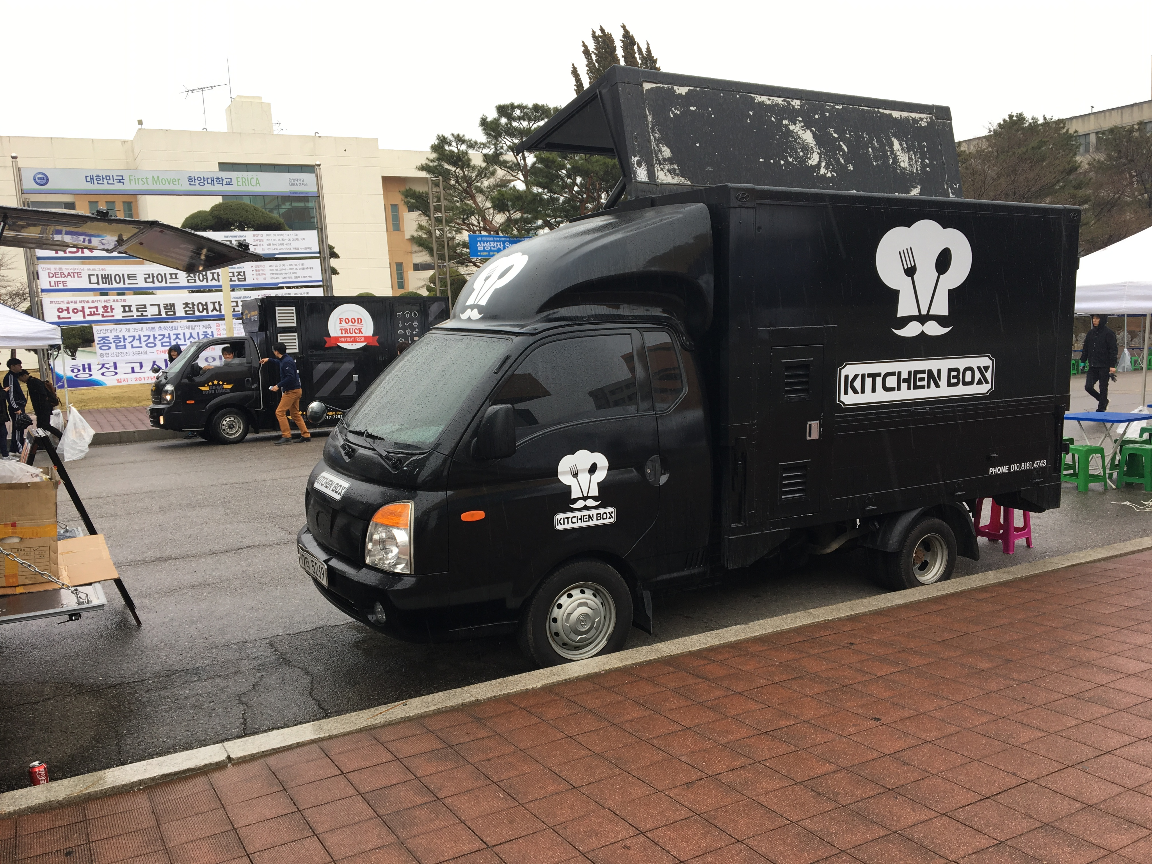 Food truck in South Korea